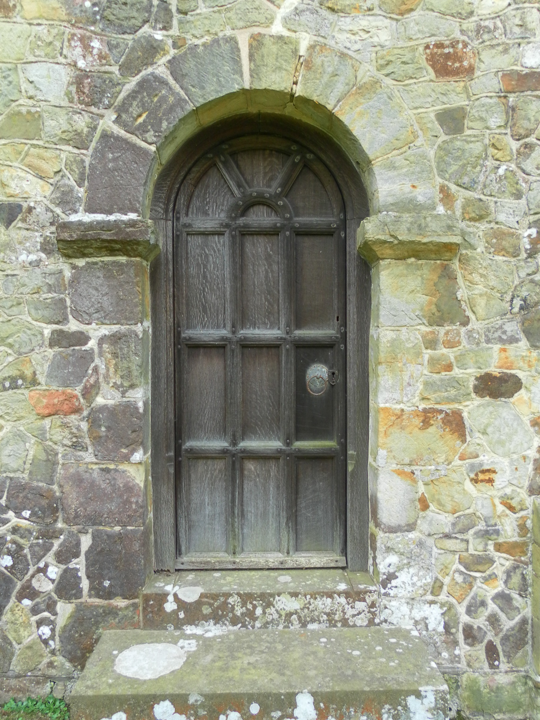 St Giles' Church, Church Lane, Horsted Keynes, district of Mid Sussex, West Sussex, England. An Anglican church built in the 12th–13th century to serve this village in a rural part of Mid Sussex. This Saxon-era doorway was reinserted in the new north aisle in 1885. Listed at Grade I by English Heritage (NHLE Code 1025684)